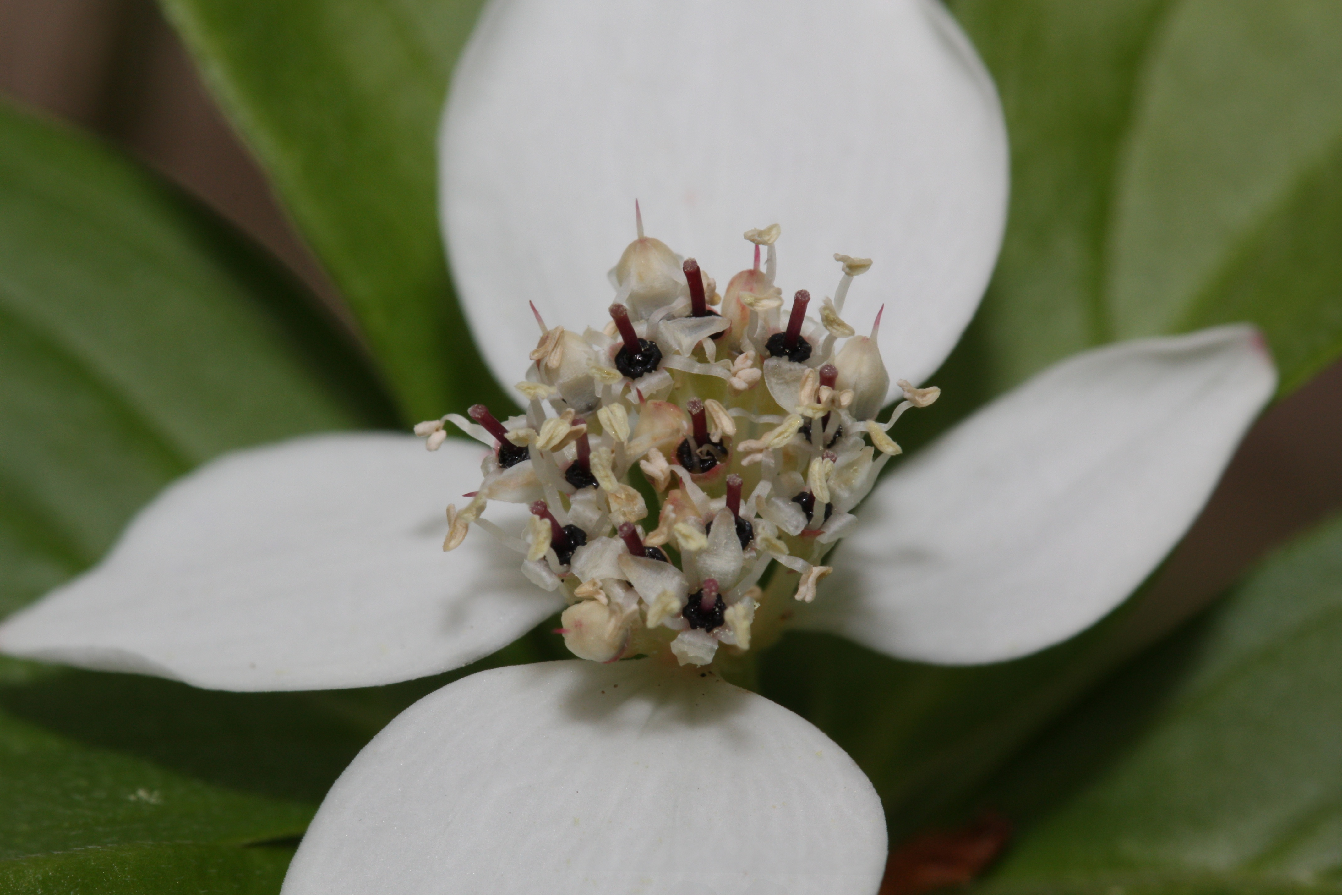 Western Cordilleran Bunchberry; focus stack from other versions (Helicon Focus)